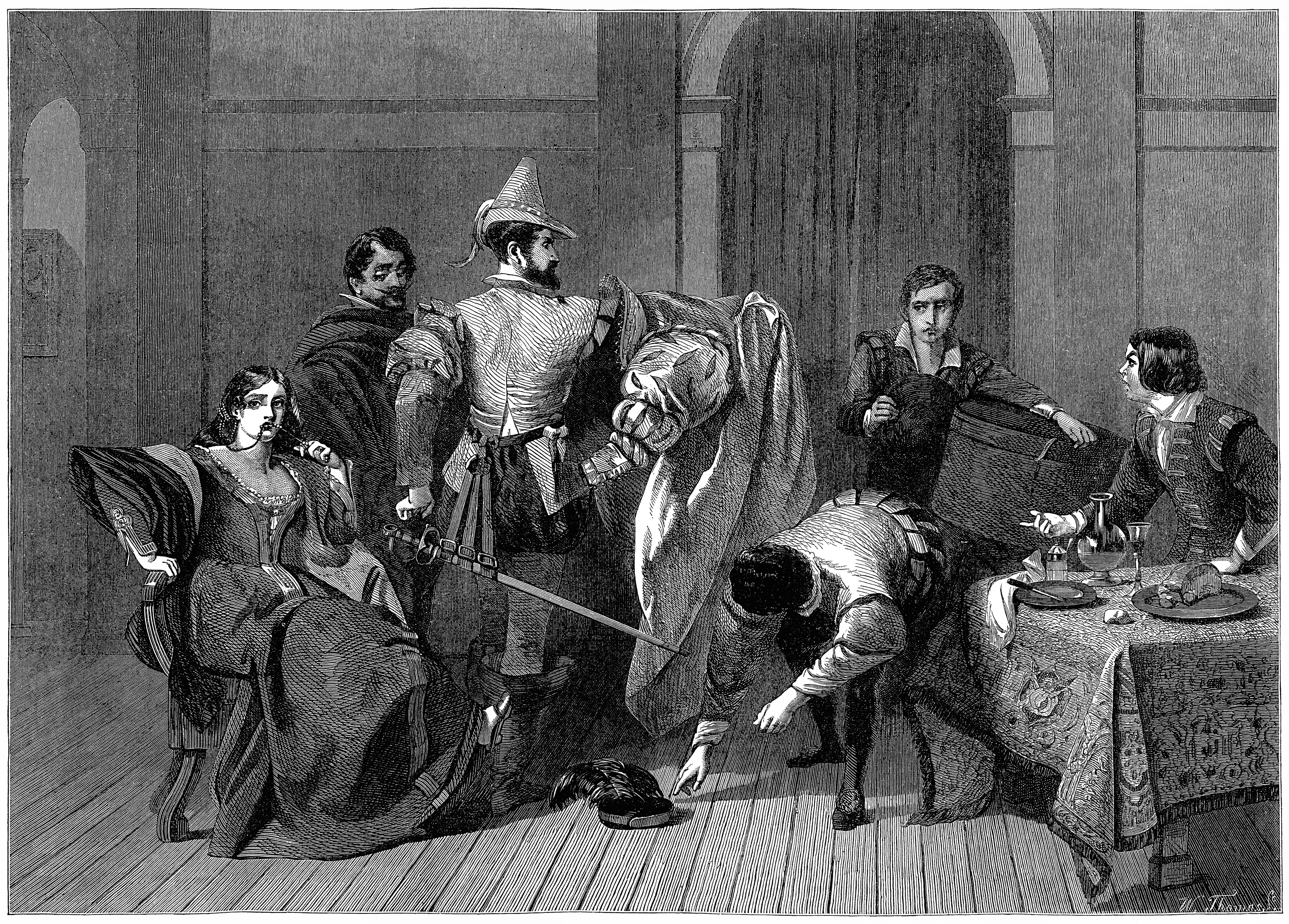 The Taming of the Shrew, by C. R. Leslie This is the scene with the cap and gown in Act IV, Scene III. The scene is a bit complicated, so here's a quote from a little earlier in the play, where Petruchio is planning how he will tame the shrew. (Act IV, Scene I) My falcon now is sharp and passing empty; And till she stoop she must not be full-gorged, For then she never looks upon her lure. Another way I have to man my haggard, To make her come and know her keeper's call, That is, to watch her, as we watch these kites That bate and beat and will not be obedient. She eat no meat to-day, nor none shall eat; Last night she slept not, nor to-night she shall not; As with the meat, some undeserved fault I'll find about the making of the bed; And here I'll fling the pillow, there the bolster, This way the coverlet, another way the sheets: Ay, and amid this hurly I intend That all is done in reverend care of her; And in conclusion she shall watch all night: And if she chance to nod I'll rail and brawl And with the clamour keep her still awake. This is a way to kill a wife with kindness; And thus I'll curb her mad and headstrong humour. He that knows better how to tame a shrew, Now let him speak: 'tis charity to show. This image shows events from a bit later: Petruchio has just rejected a cap he had ordered for Kate (seen on the ground) over her wishes, because it was not good enough for her, and is now analysing and finding fault with a gown he had ordered for her. It too will soon be rejected, despite Kate's liking for it, until she learns to obey her husband's will. By the end of it, he'll literally have her agreeing the sun is the moon, if he says so.